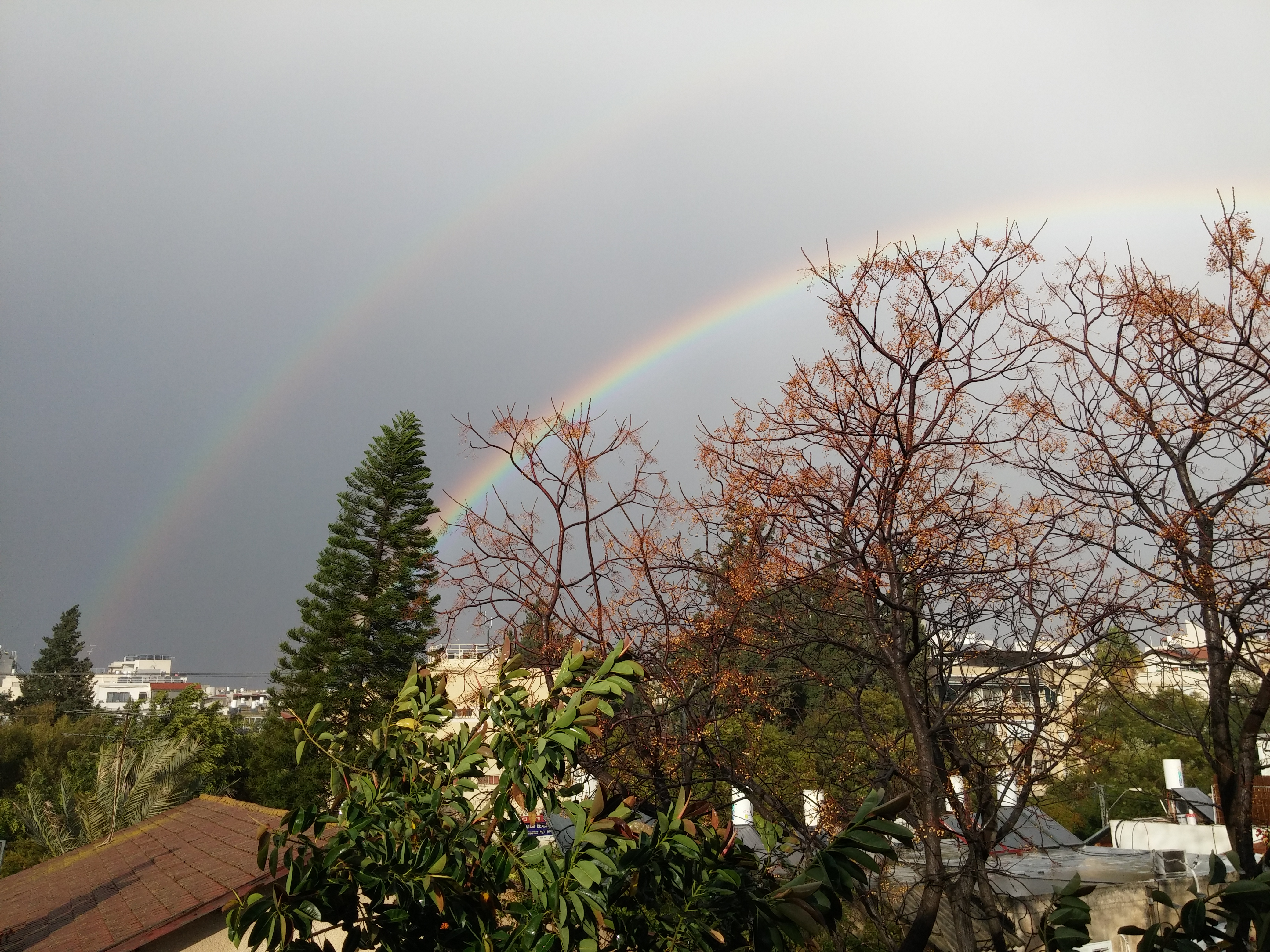 A double rainbow in Ramat Gan